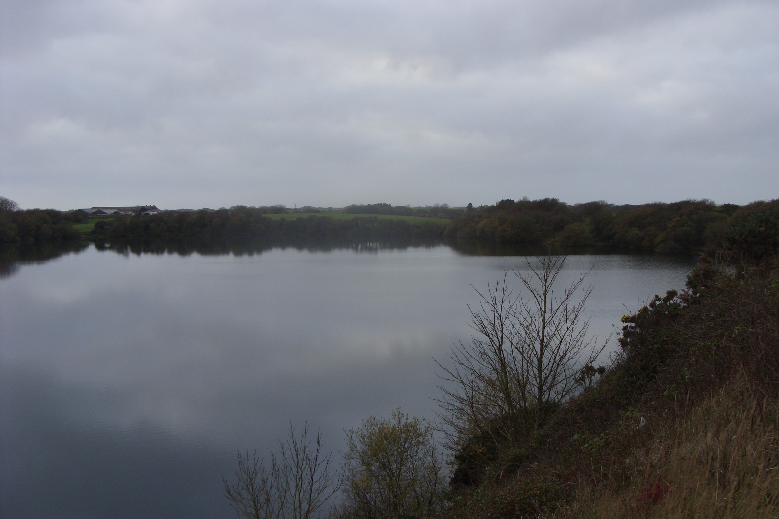 Rita water